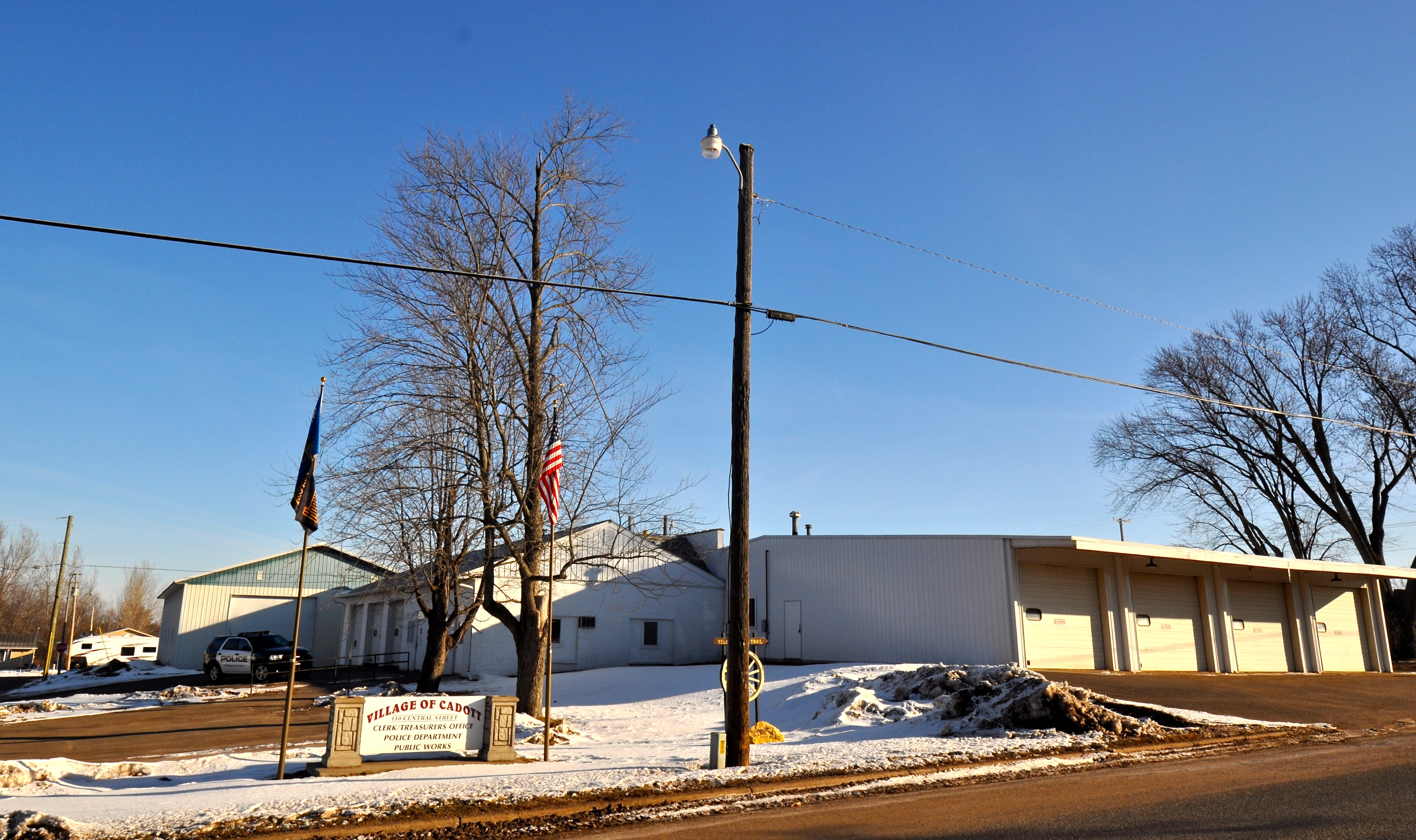 Village administration buildings located in Cadott, Wisconsin